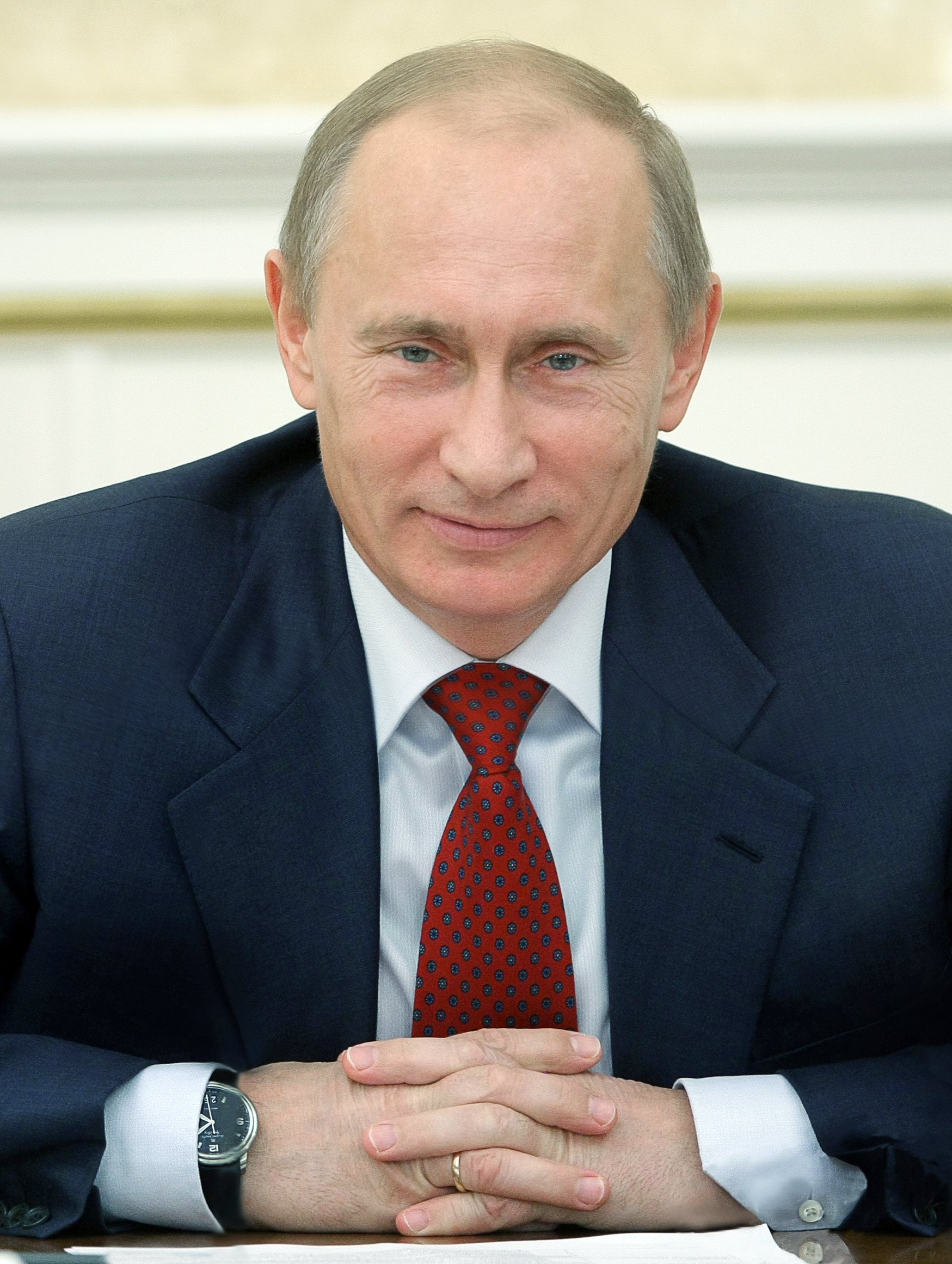 Portrait of Vladimir Putin.